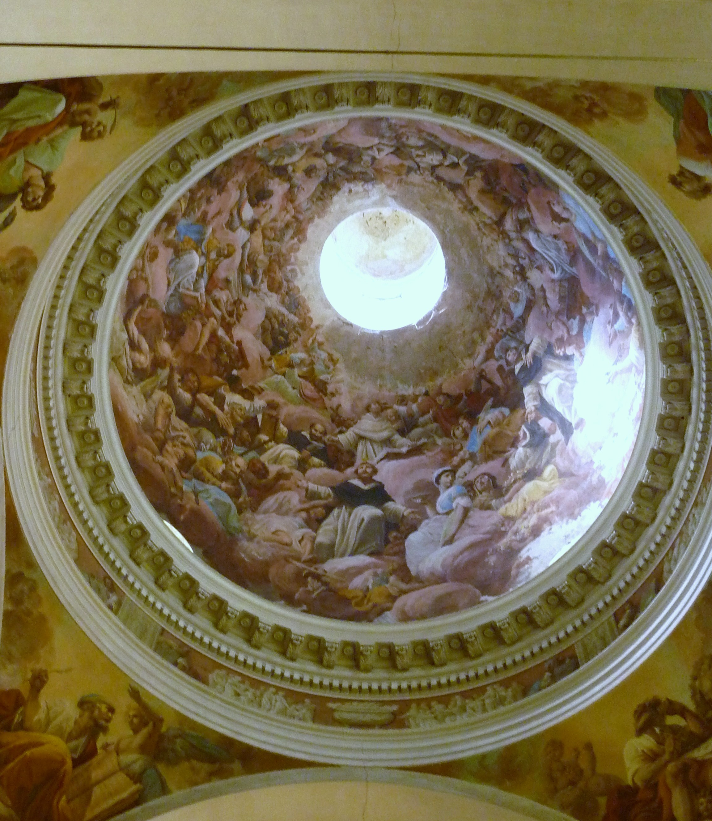 Dome of the Cappella Ducale di San Liborio, painted by Domenico Muzzi.